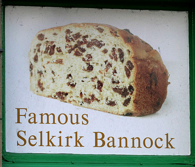 The famous Selkirk Bannock. A sign above the door to a bakers shop in Selkirk town centre 1756829. A Selkirk Bannock is a type of fruit loaf that is popular throughout Scotland and especially in the Borders area.